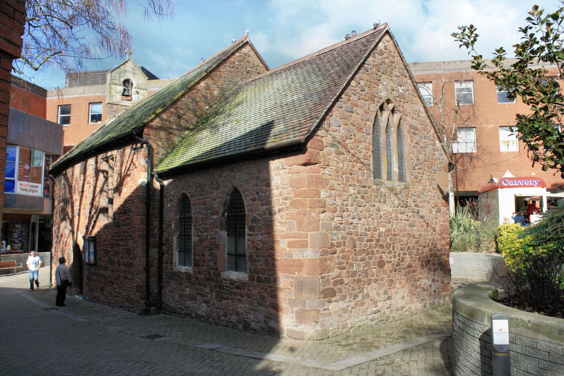 Dedicated to the teenage martyr, St Pancras, the church is one of the oldest Christian sites in England. In spite of its small size it has both a chancel and a nave.